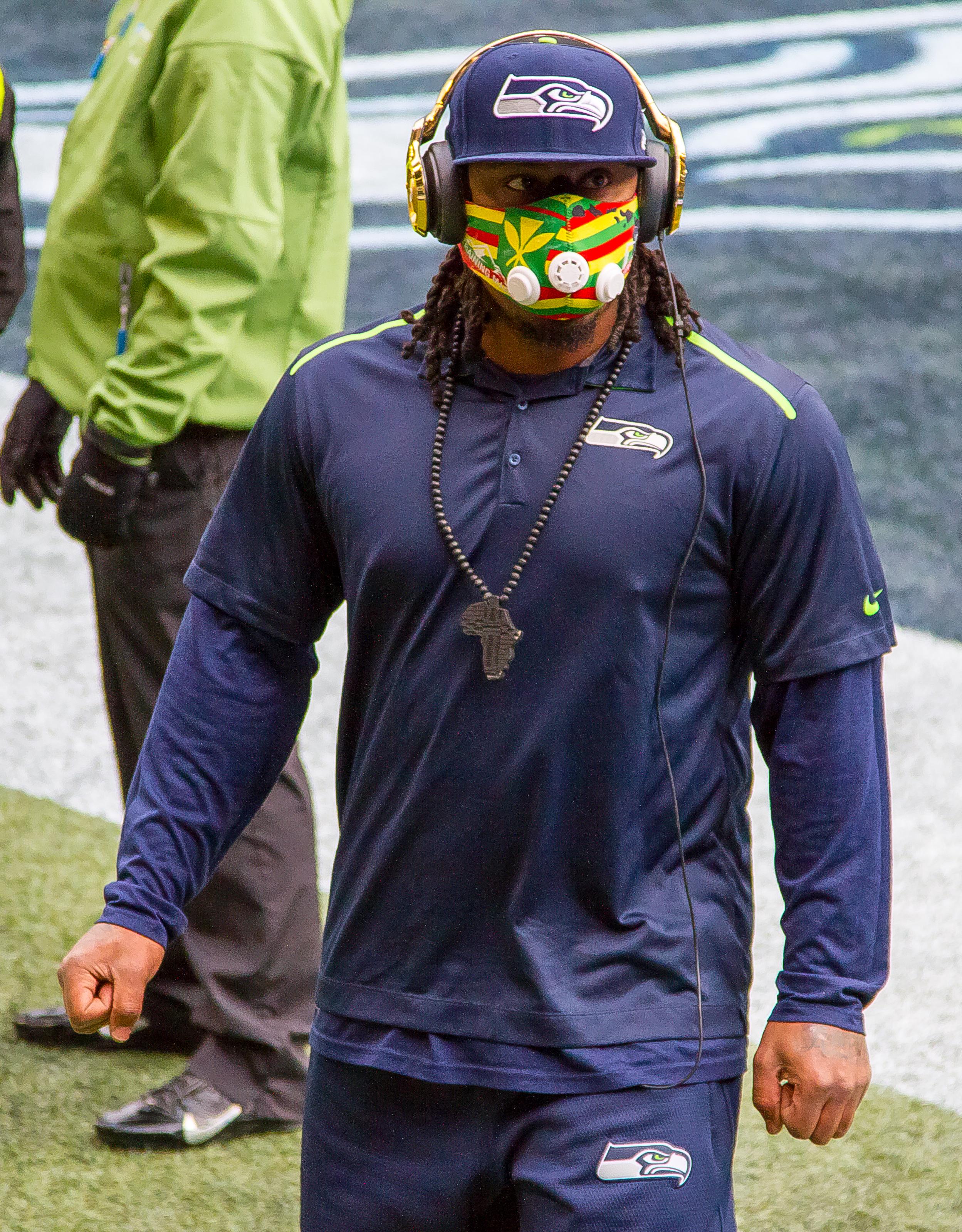 Rams at Seahawks 2014.